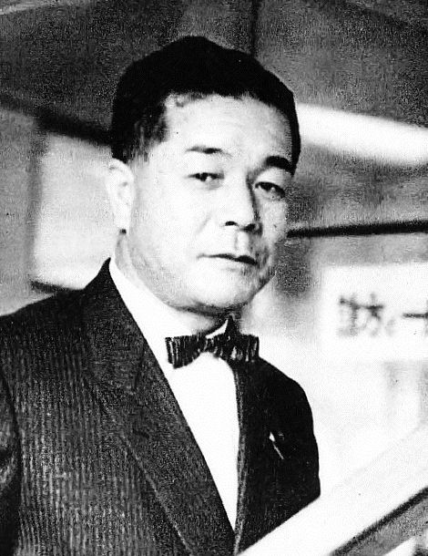 Akio Nagamine